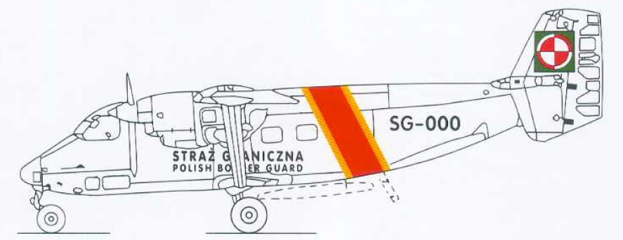 Markings od the Polish Border Guard aircraft (PZL M28 Bryza)